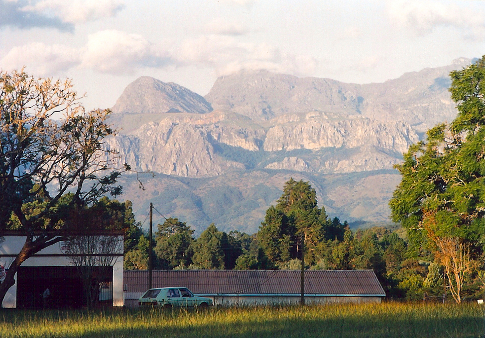 The Eastern Highlands of Zimbabwe, seen from the village of Chimanimani, Manicaland. The mountains form the border with Mozambique. The roofline in the centre is a small parade of shops - the centre of the village. Taken April 1995 on Fujifilm.